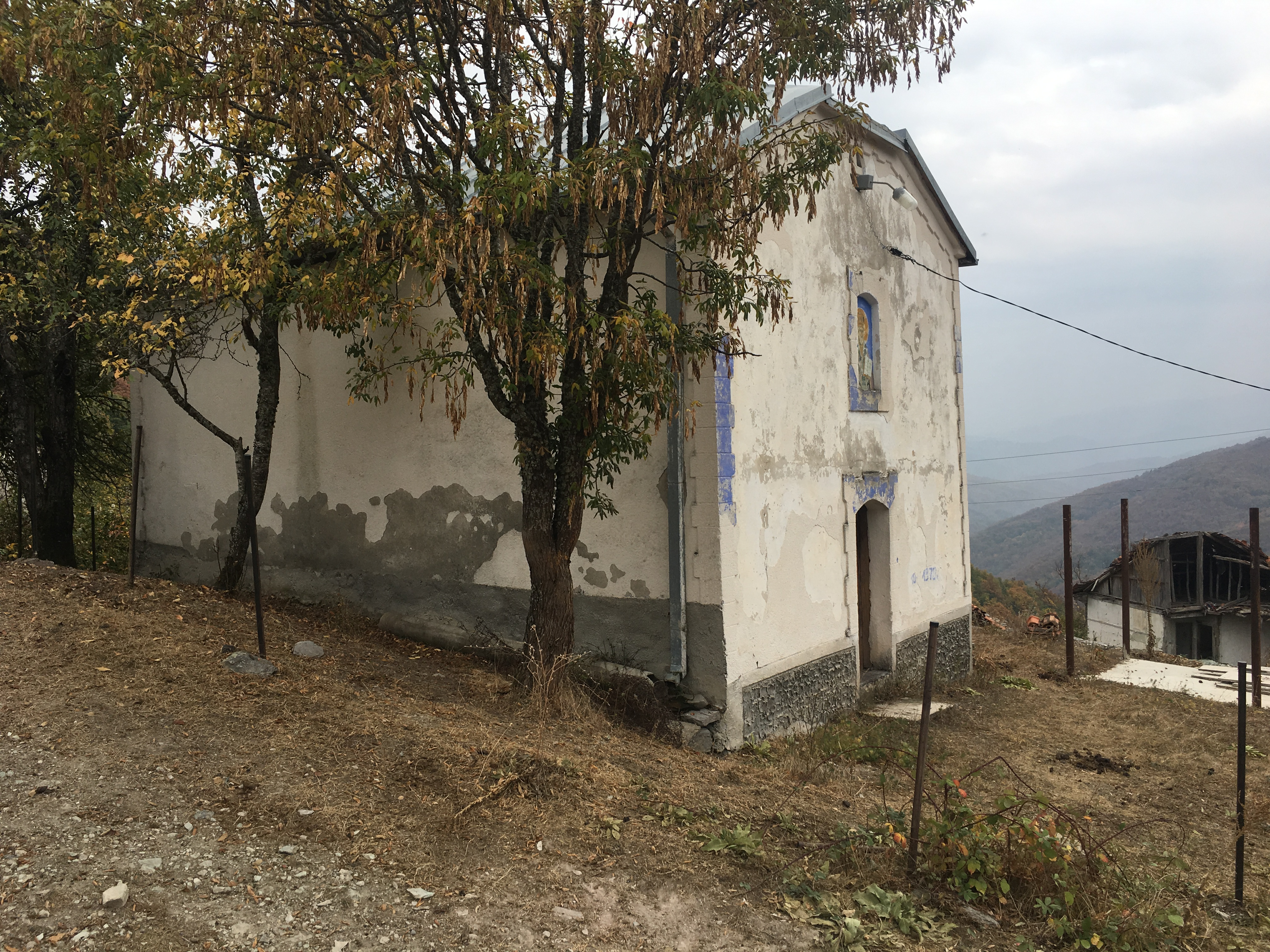 Wikiexpedition to Kopačka